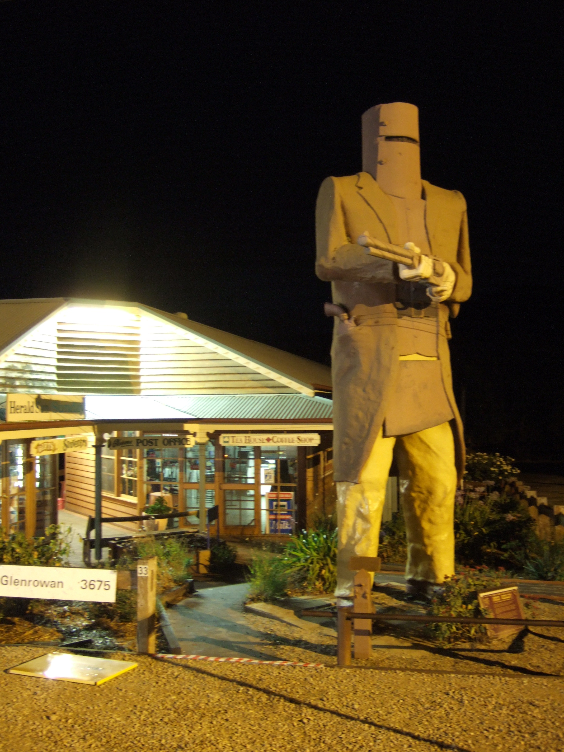 The big Ned Kelly statue at Glenrowan, Victoria. Taken by me. In the middle of the night.